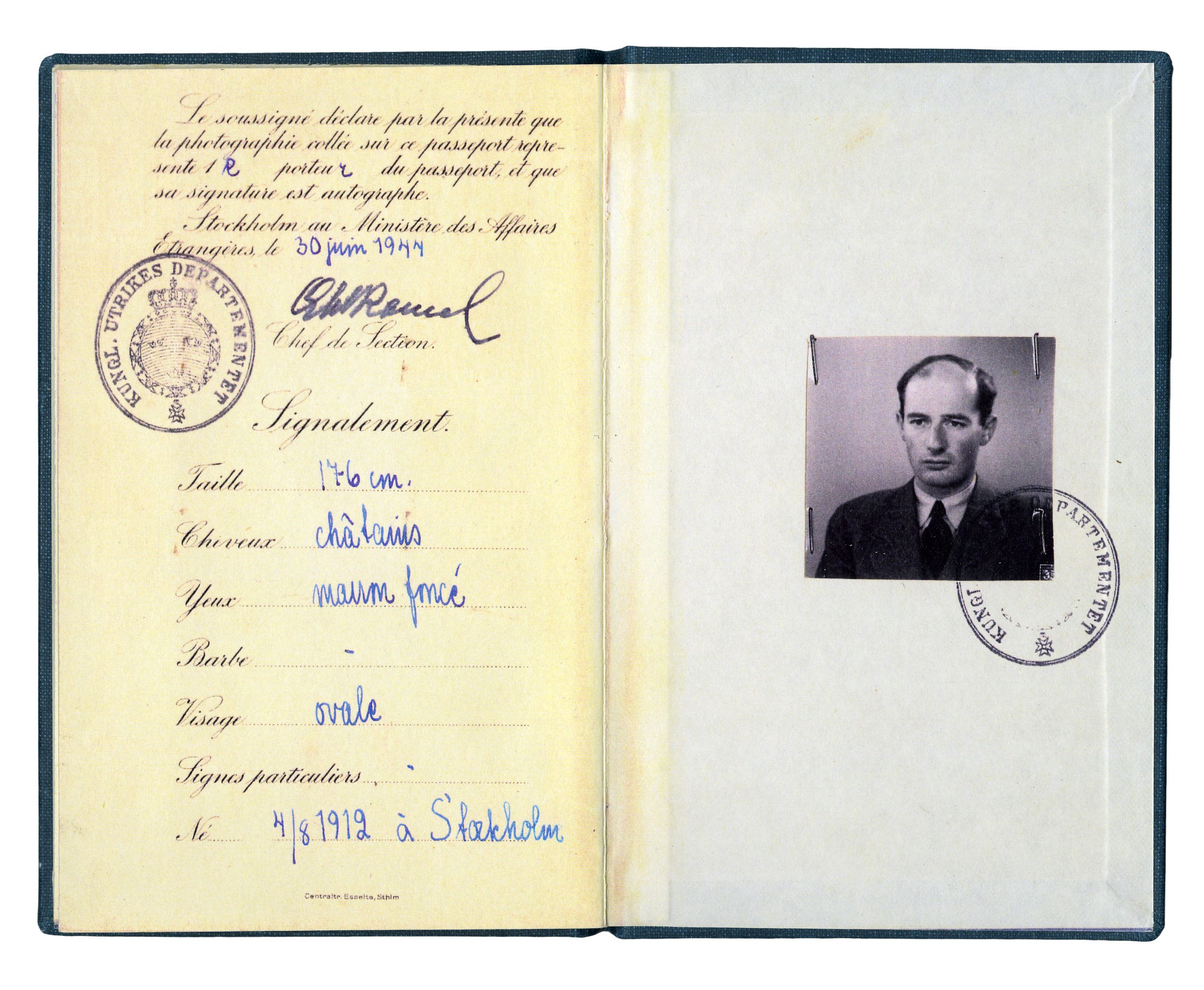 Raoul Wallenbergs Swedish diplomatic passport. From the collections of the Swedish Army Museum.